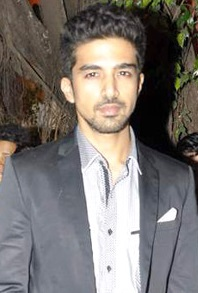 Saqib Saleem Nikhil Advani's bash